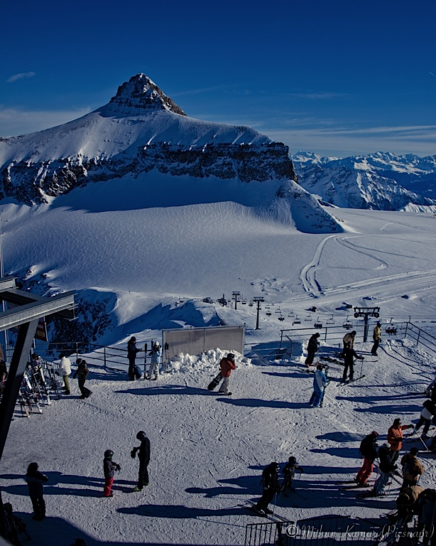 On a sunny day, people flock in hundreds to ski on this beautiful spot.